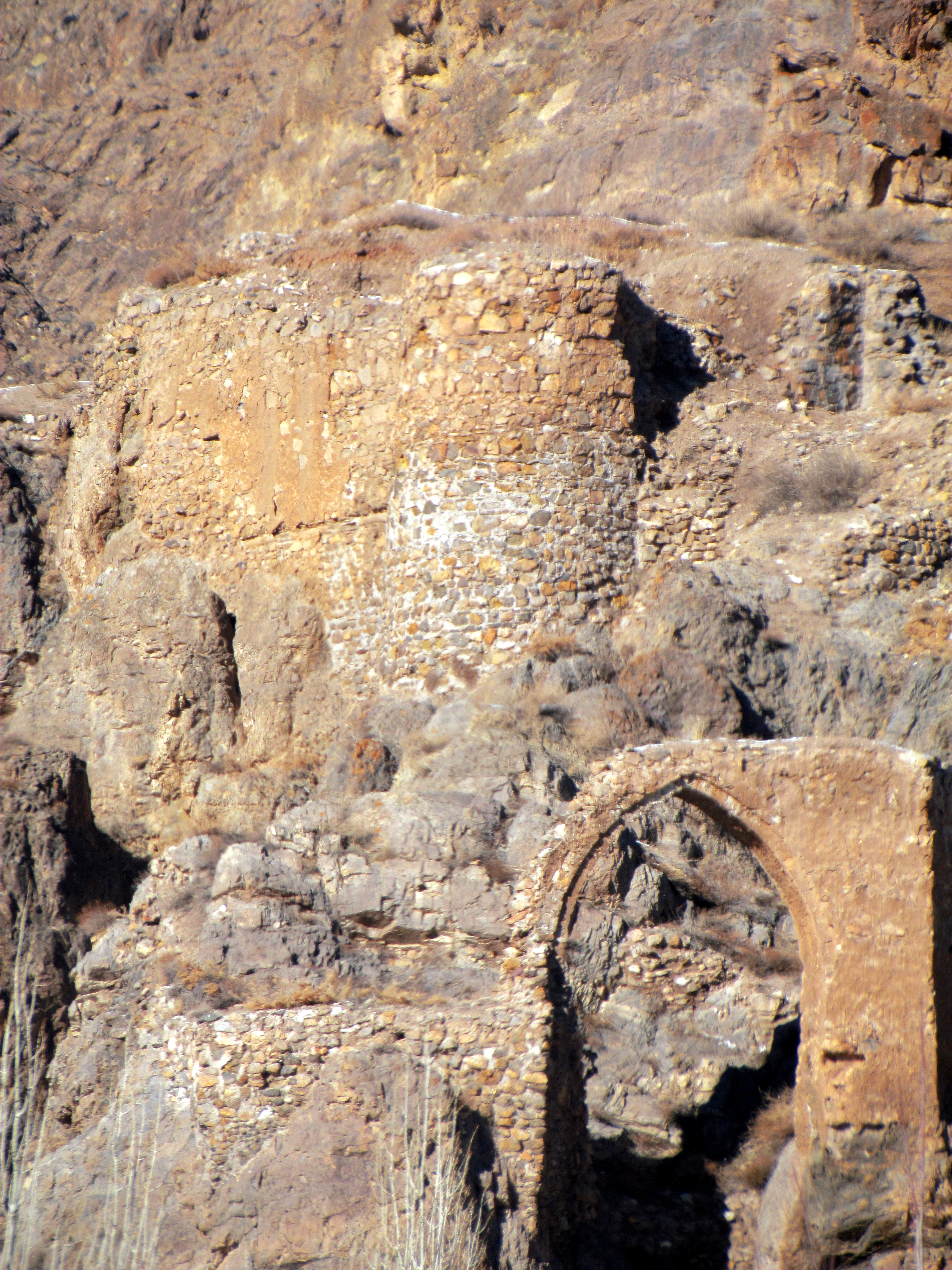 Poulad castle, Baladeh, Mazandaran Province, Iran